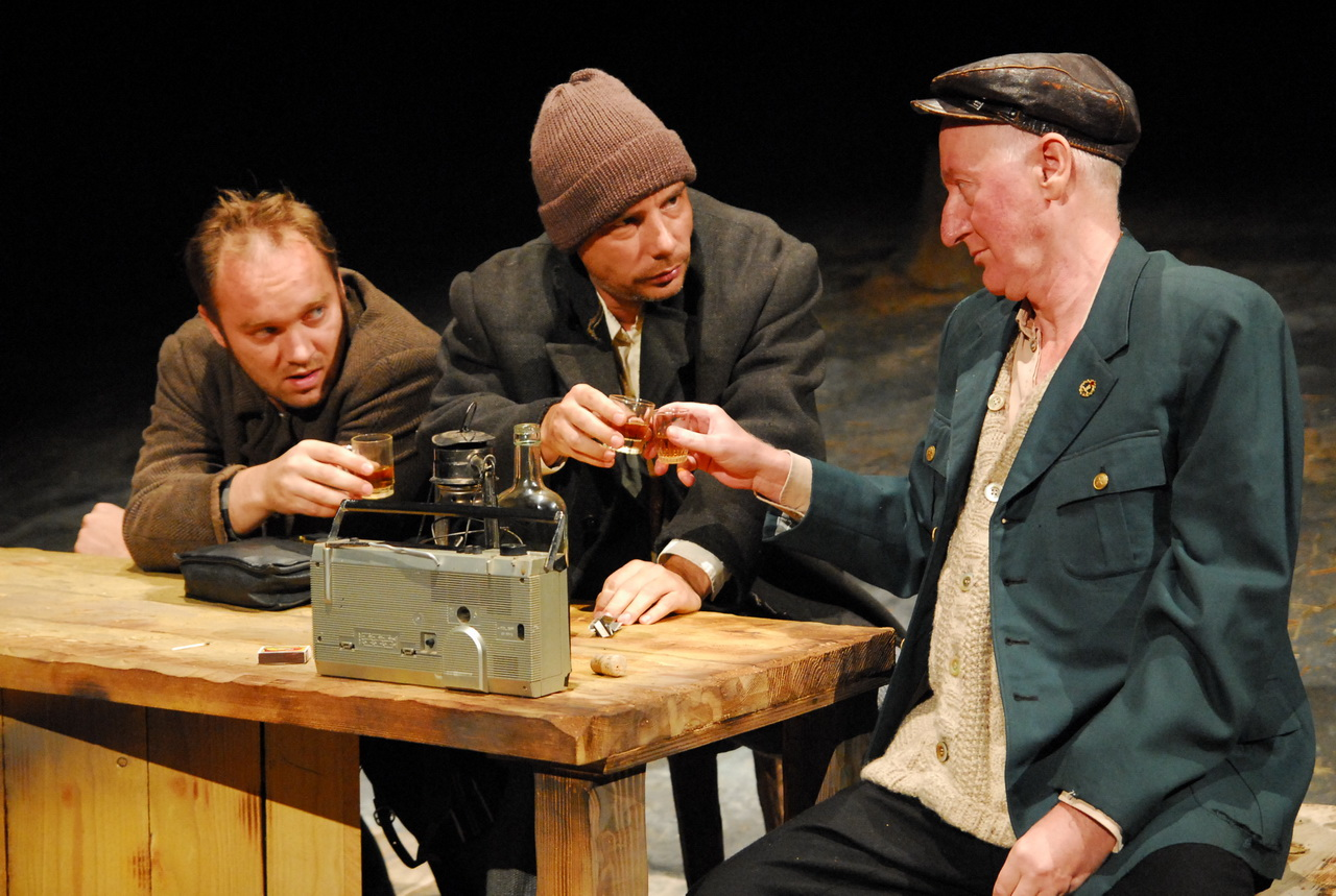 "Vivarium" by Dušan Spasojević, directed by Boris Liješević; Drama of SNT, Novi Sad, 2007/08; actors: Strahinja Bojović, Aleksandar Gajin, Dragoslav Pešić Srpski (latinica): "Zverinjak" Dušana Spasojevića u režiji Borisa Liješevića; Drama SNP-a, Novi Sad, 2007/08; glumci: Strahinja Bojović, Aleksandar Gajin, Dragoslav Pešić